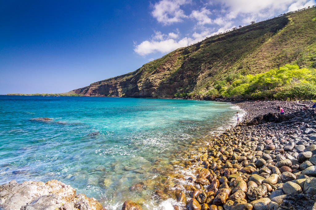 A photo of Kealakekua Bay in the morning